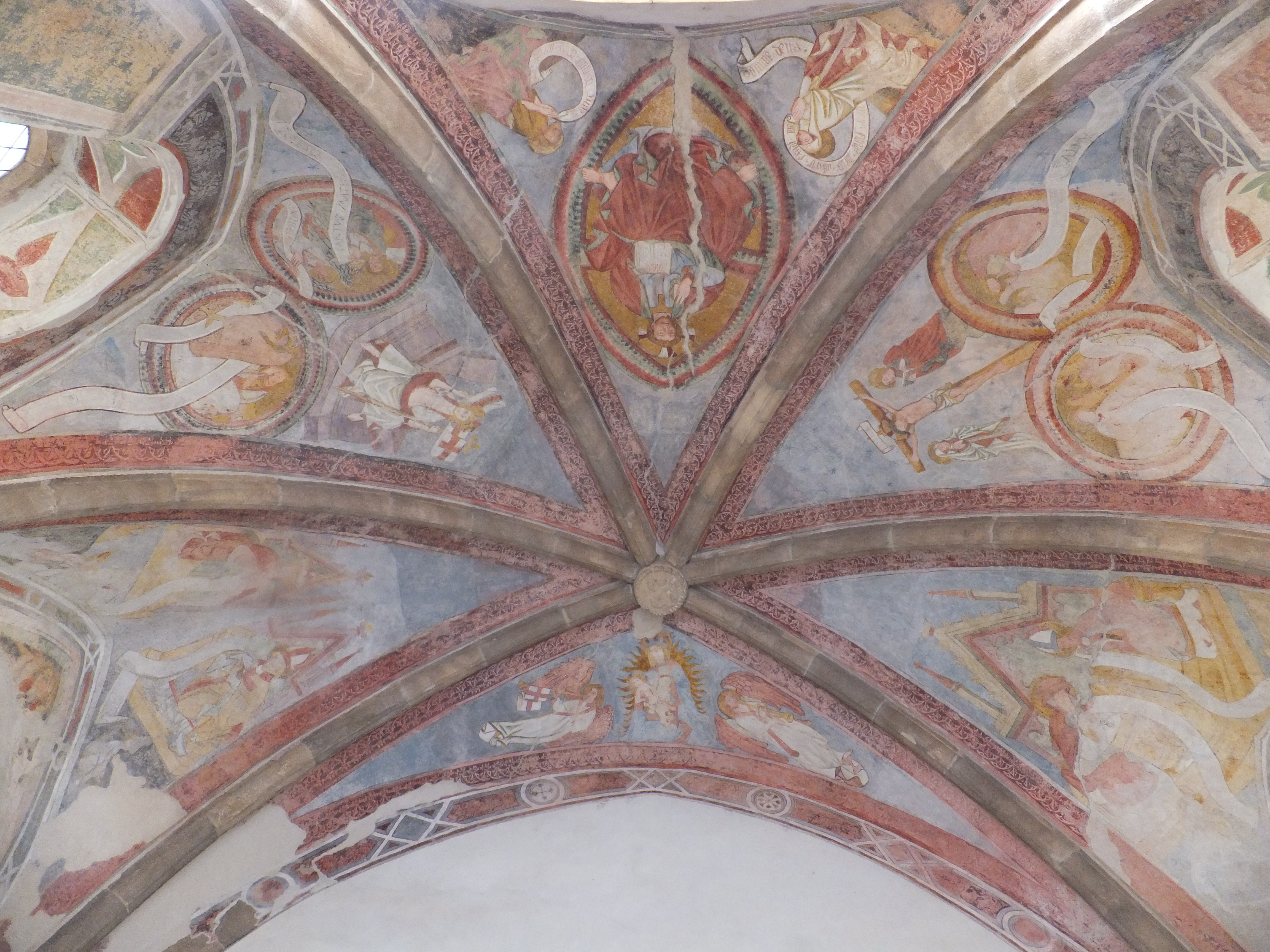 Cembra - Church of the Assumption of Mary - Fresco on the ceiling of the entrance